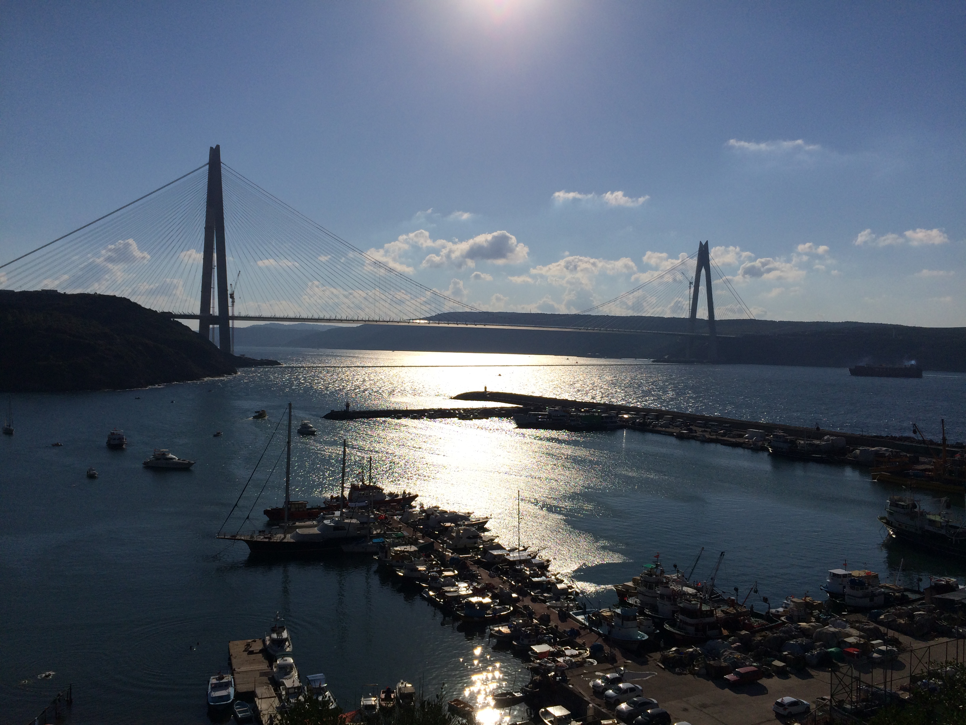 Yavuz Sultan Selim Bridge, view from Poyrazköy